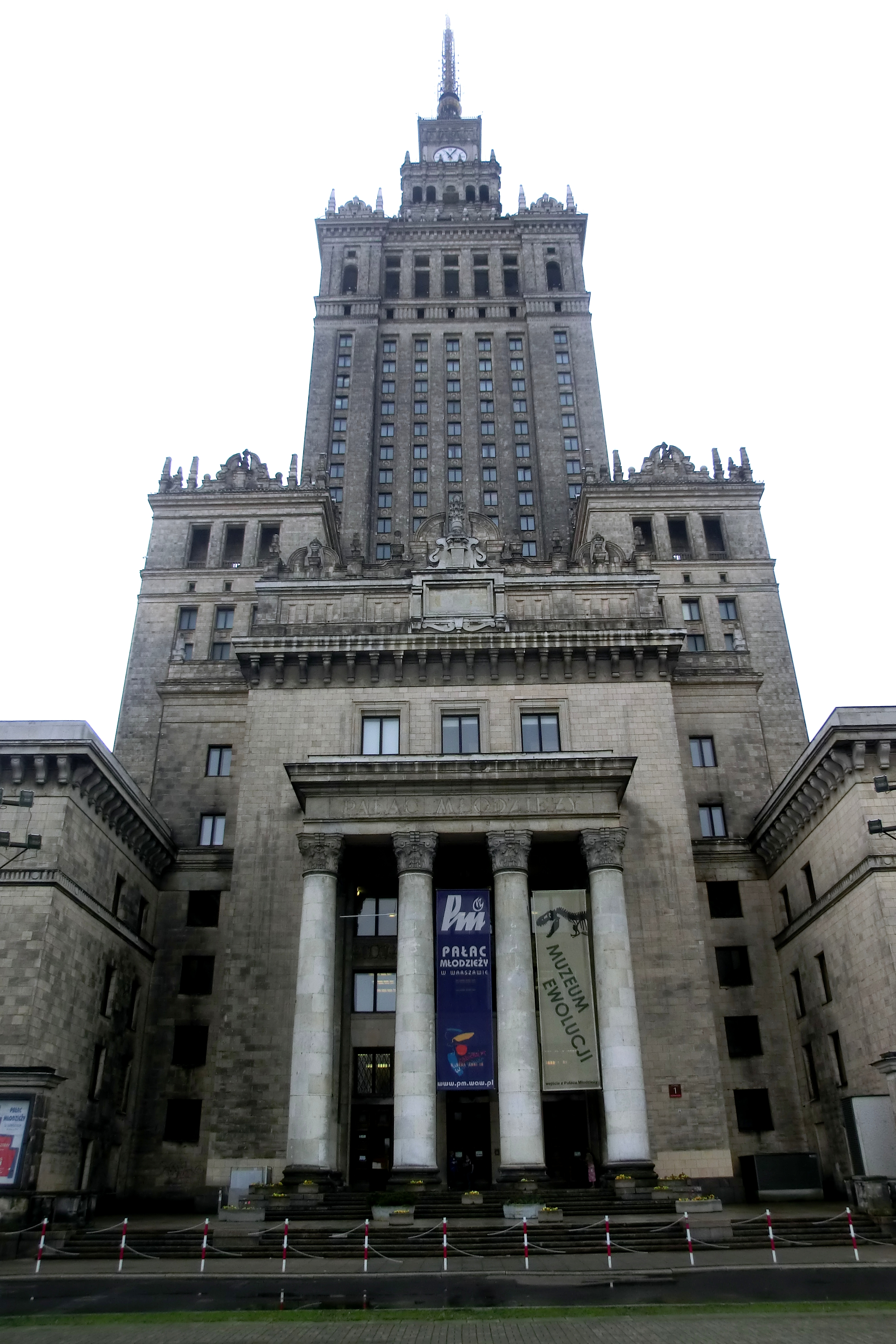 Entrance to the Museum of Evolution, situated in the Palace of Culture and Science in Warsaw, Poland.